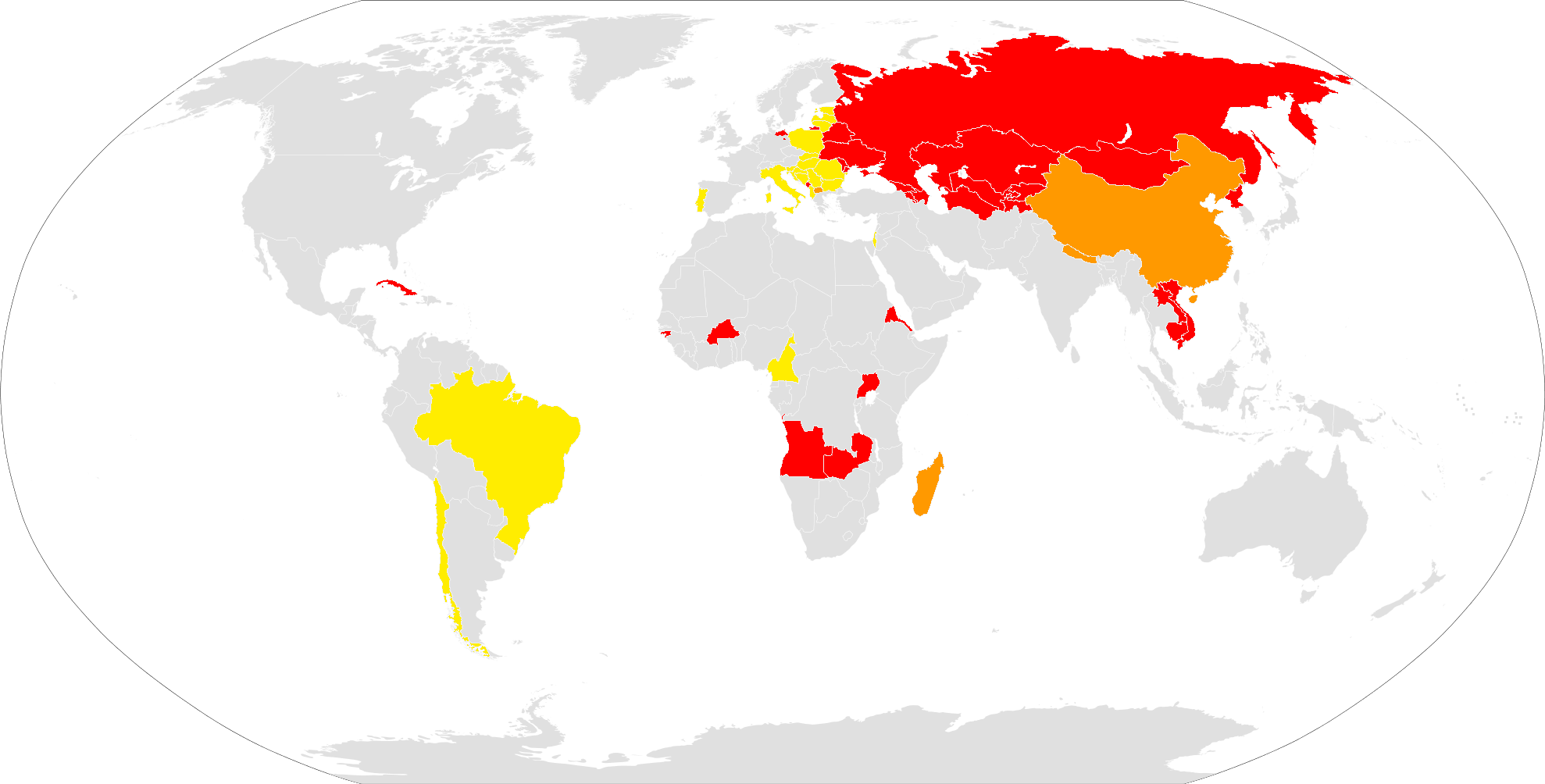 red – official holiday orange – holiday for women yellow – non official holiday (gifts for women)